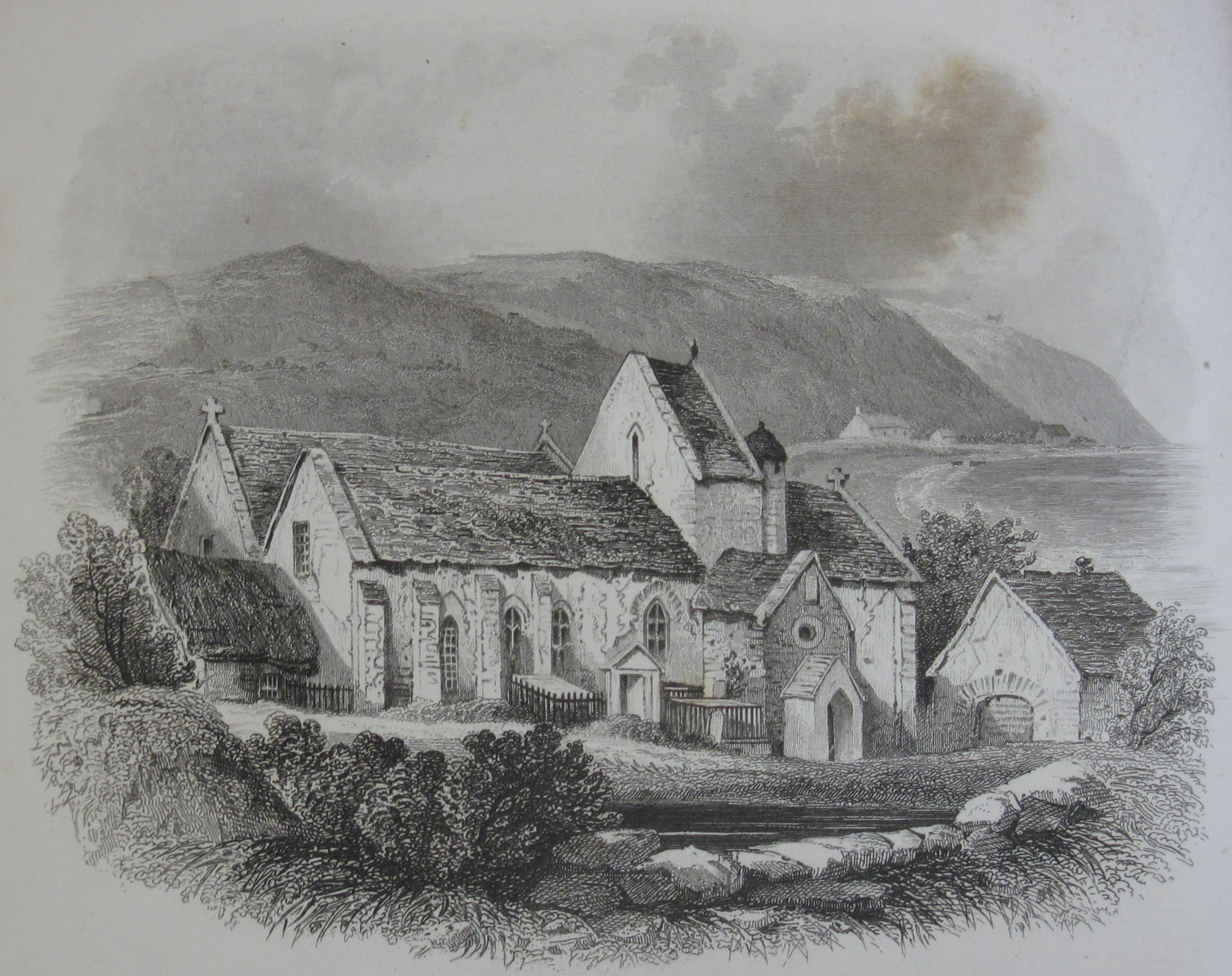 Illustration from Historical and Topographical Description of the Channel Islands (1840) by Robert Mudie - "St. Brelade's church, Jersey"